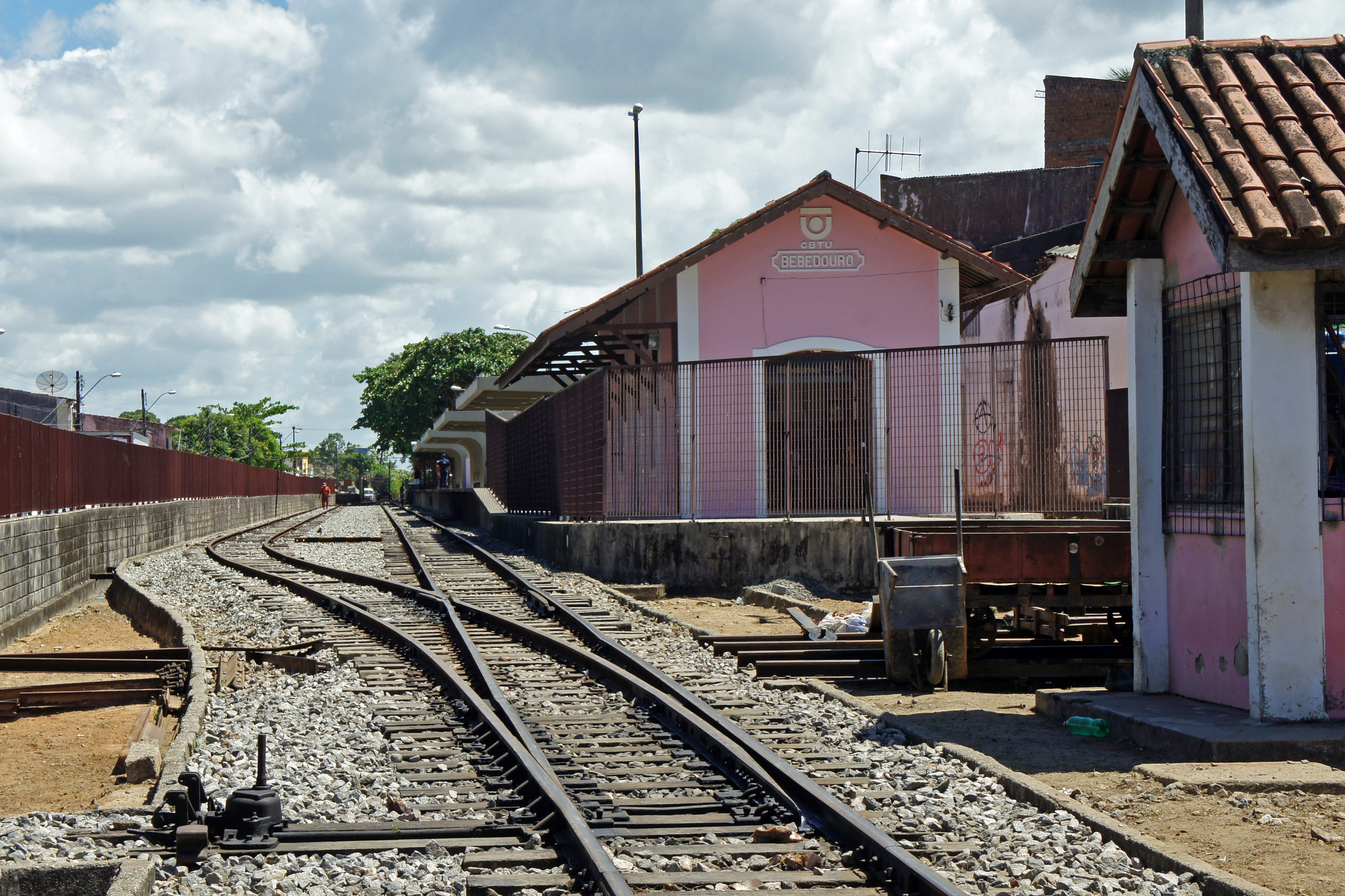 Bebedouro station, VLT Maceió CBTU, Brazil